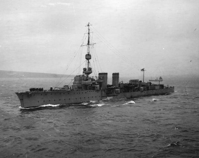 Royal Navy C-class light cruiser HMS Castor